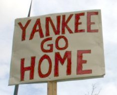 detail from Image:Yankee go home Liverpool.jpg